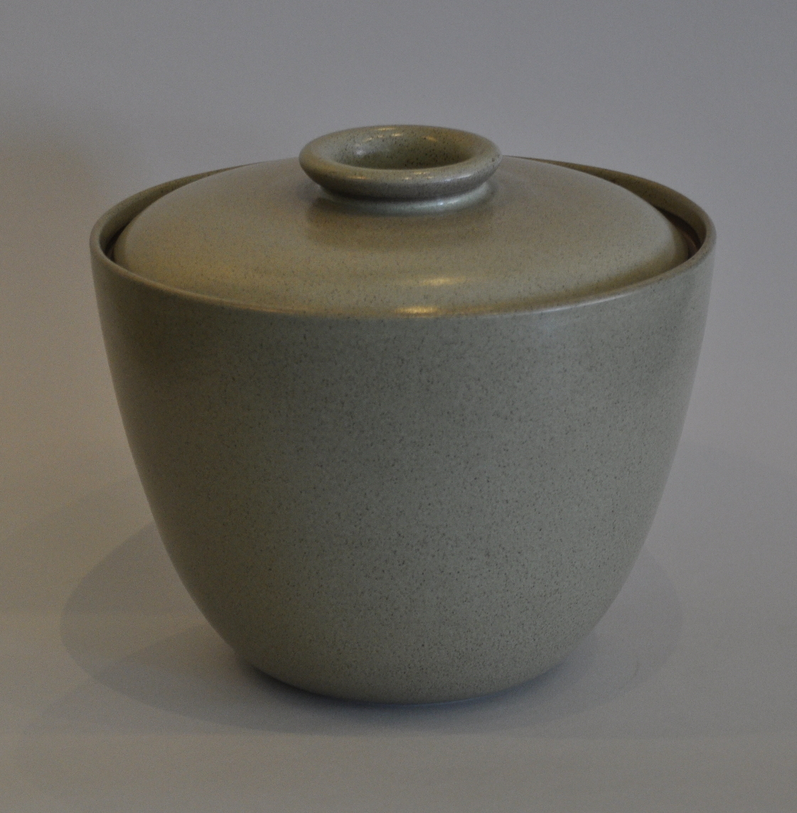 Heath Ceramics, California pottery c. 1960s